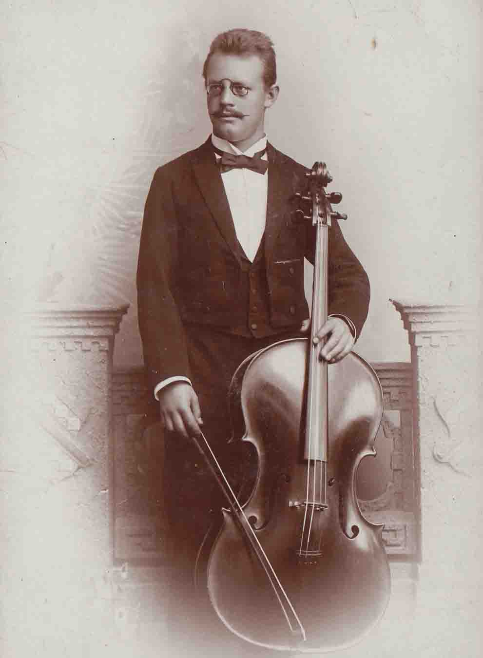 Christian Döbereiner with Cello